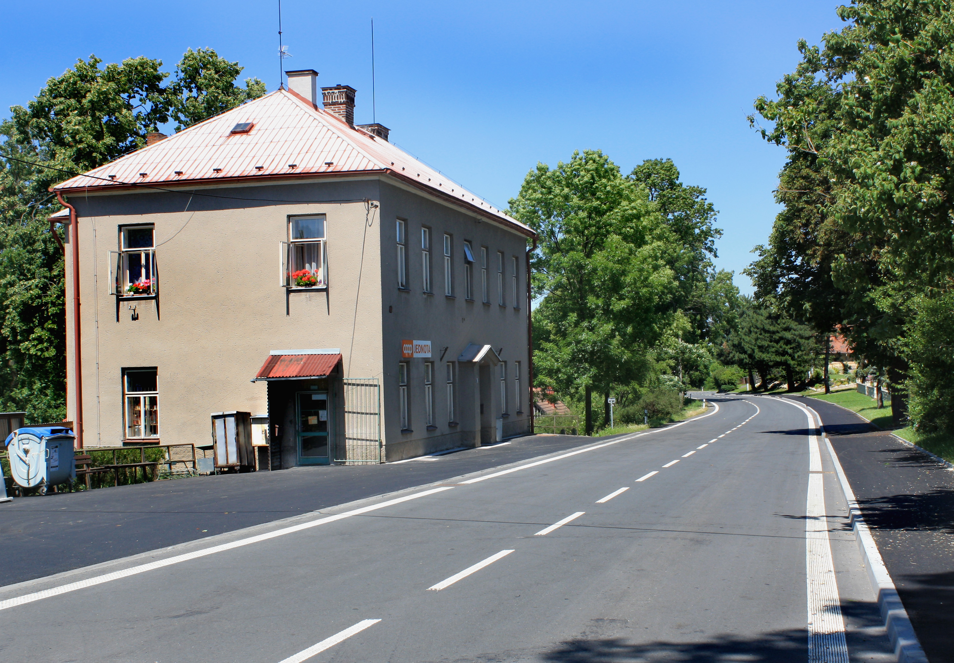 General store in Lezník, part of Polička, Czech Republic